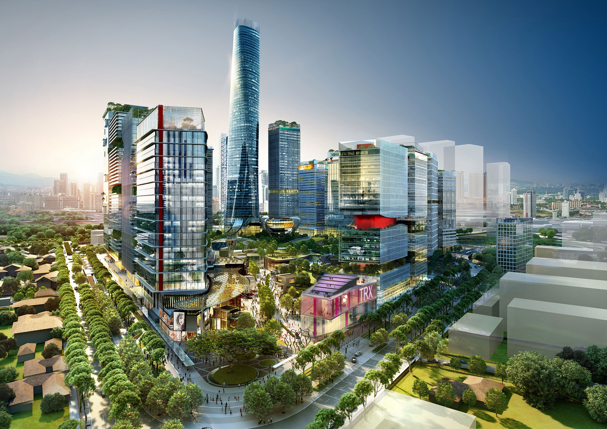 A landmark Financial District in Kuala Lumpur